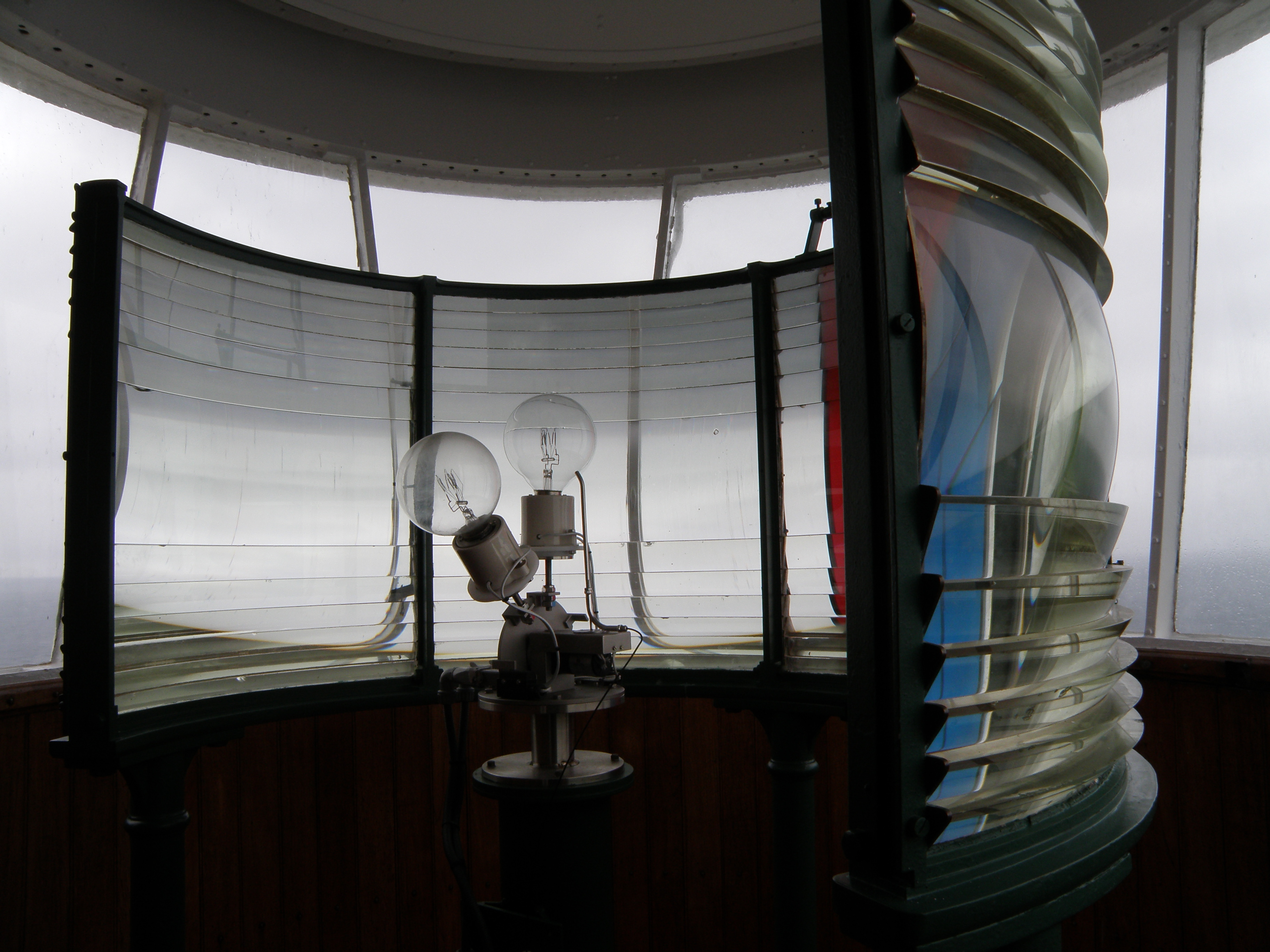 The Fresnel lens and two bulbs in the lighthouse in Akraberg, Suðuroy, Faroe Islands.